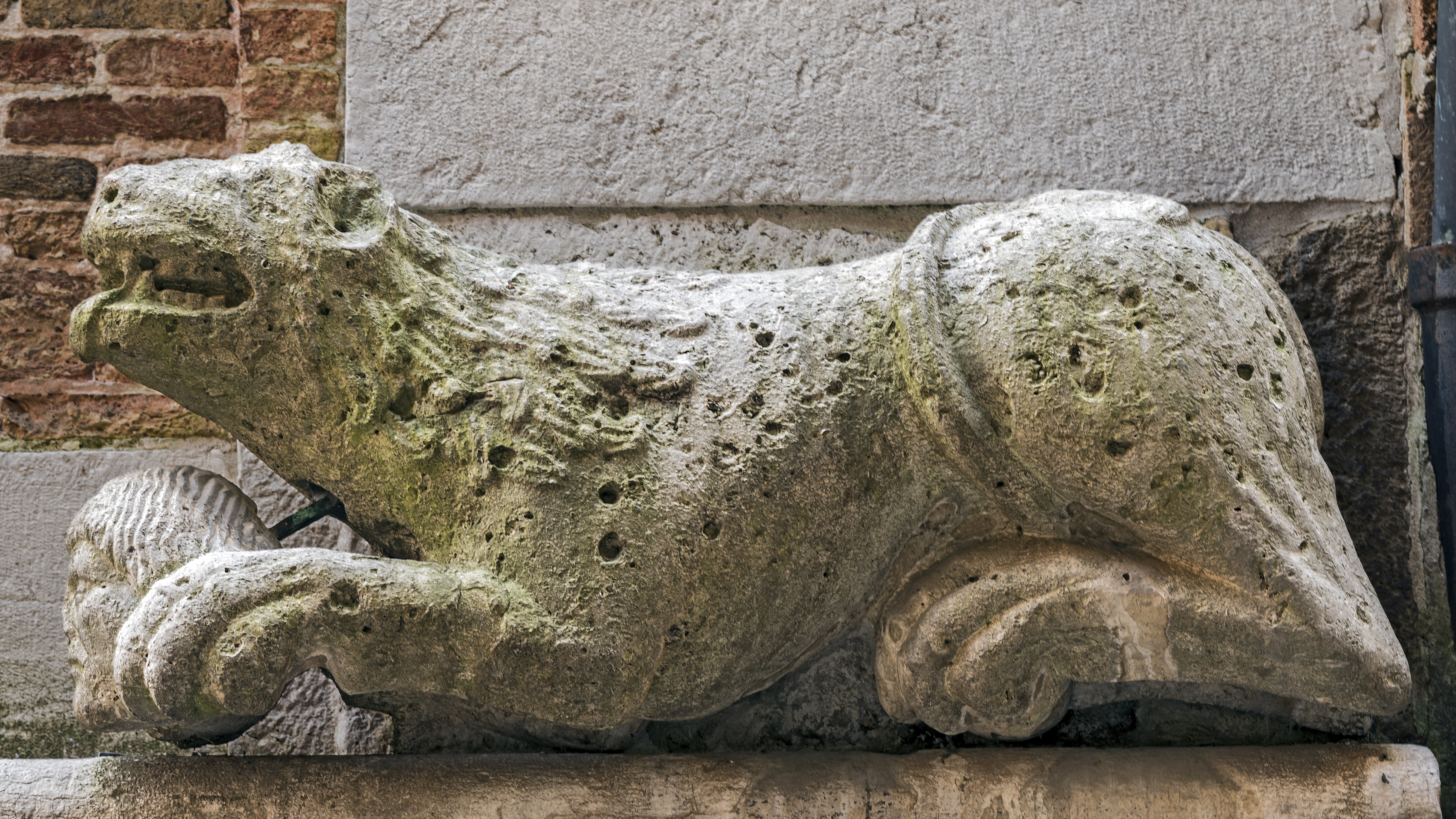 San Polo (church) - Lion (right), roman style twelfth century. Between the legs shaking representation of a human head, to the base of the bell tower of the church of San Polo. Initially it was part of an earlier construction of another building.